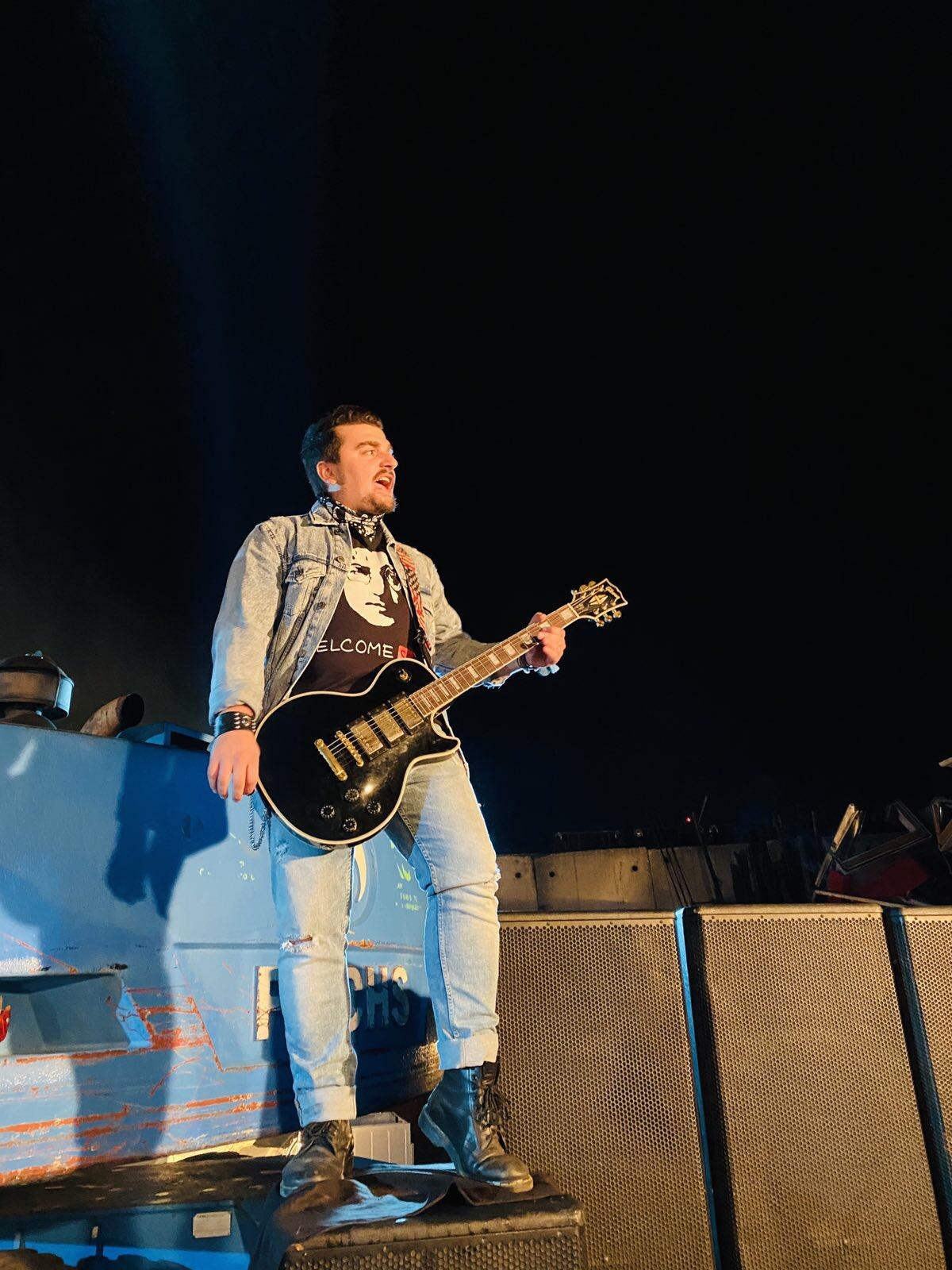 Music producer